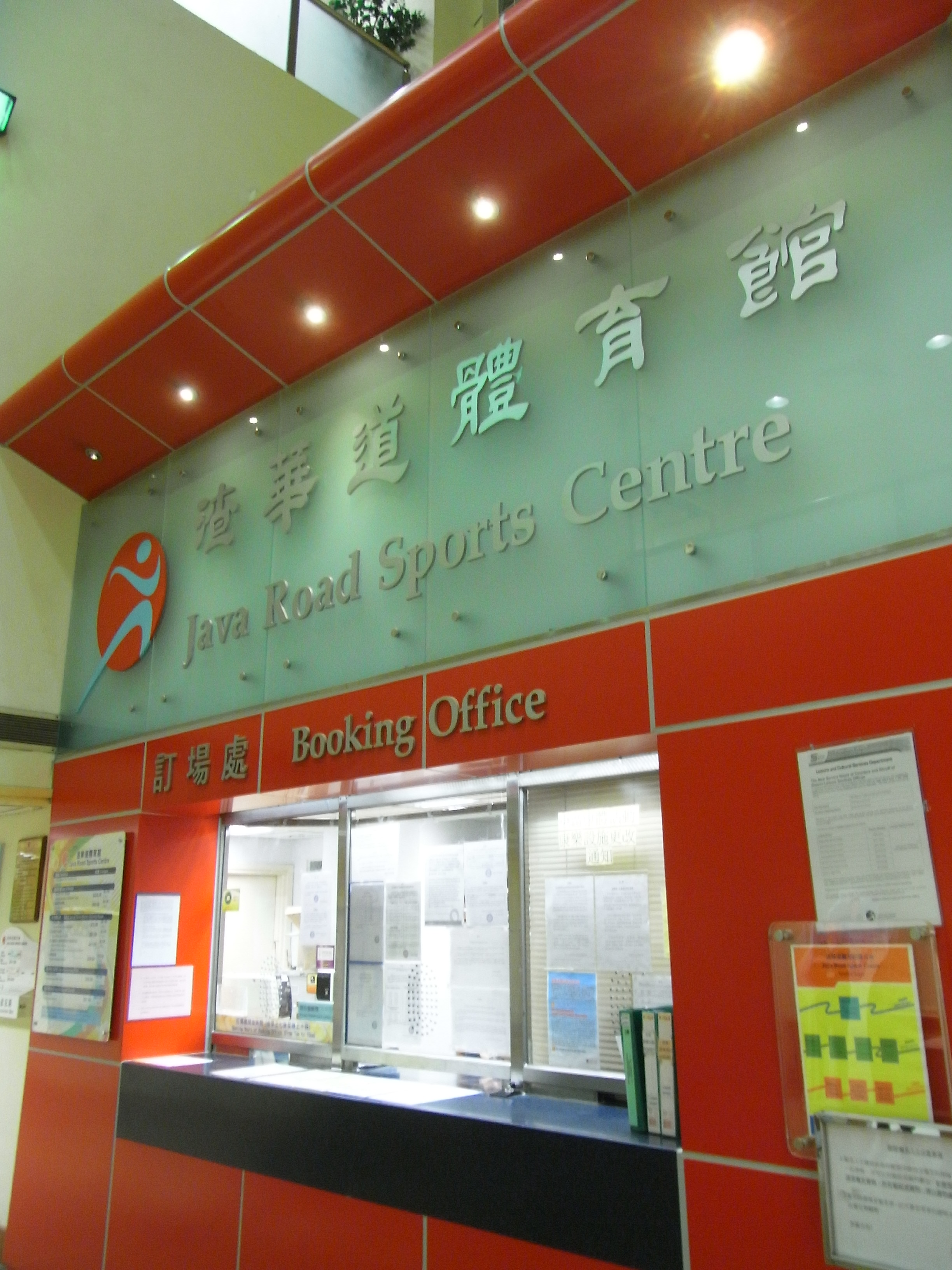 北角 渣華道 Java Road Municipal Services Building, North Point, Hong Kong